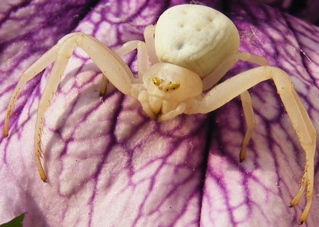 White female Misumena vatia (crab spider) on a Petunia Tumbelina Priscilla flower. Taken in Dorset, England. Cropped version of